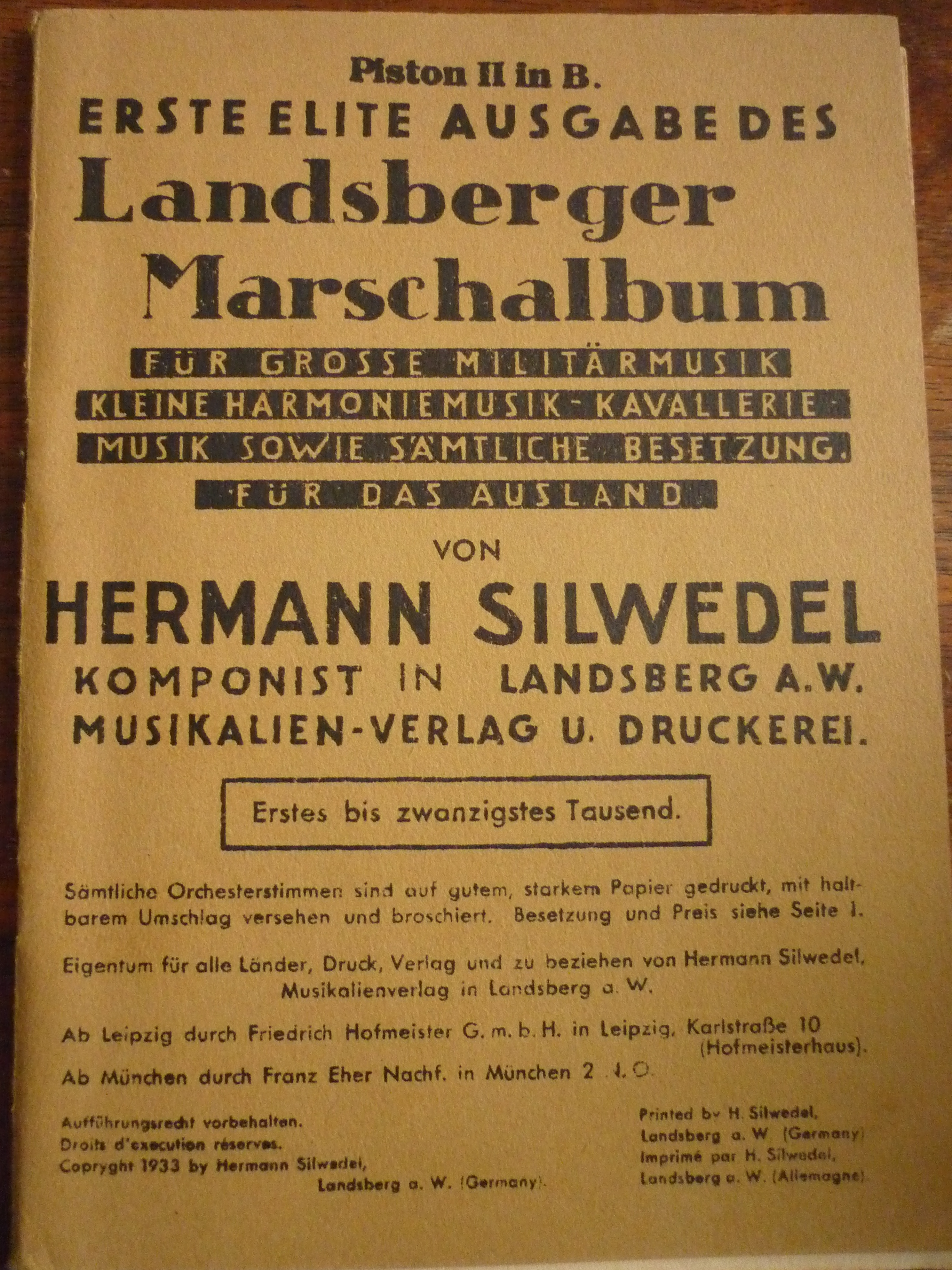 Piston II in B.Landsberger Marschalbum. Für Grosse Militärmusik. Kleine Harmoniemusik-Kavallerie - Musik sowie sämtliche Besetzung. Für das Ausland. Von Hermmann Silwedel. Komponist in Landsberg A.W. Musikalien-Vlerag u. Druckerei. Auflage: Erstes bis zwanzigstes Tausend. 1933. Copryright by Hermann Silwedel.